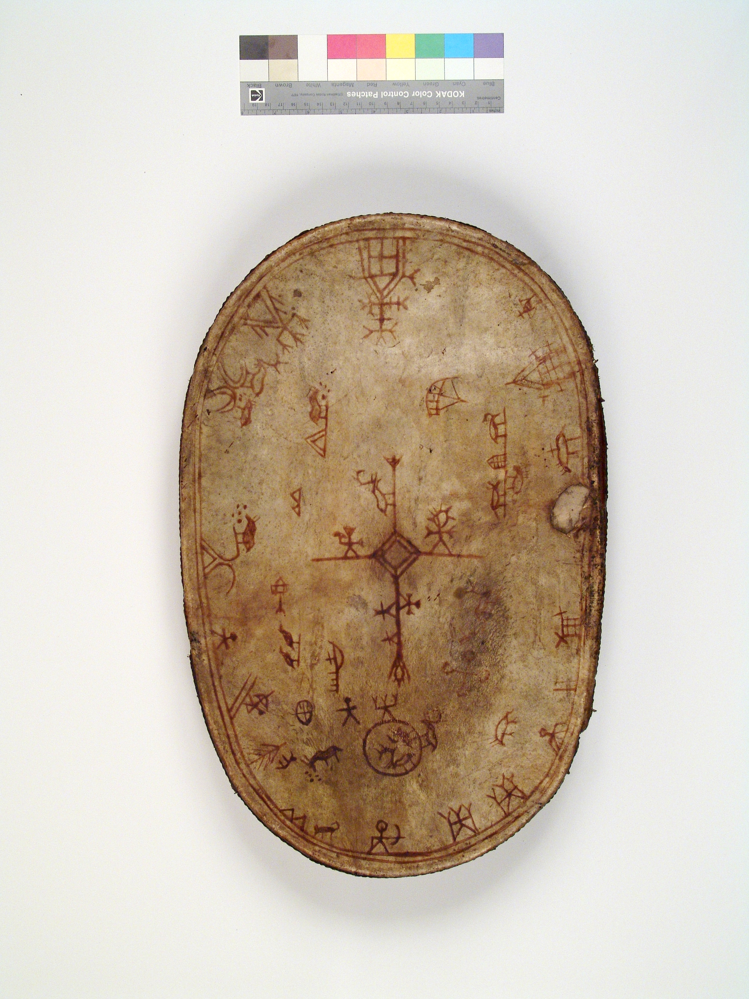 The sami drum Frøyningsfjelltromma; confiscated by norwegian or swedish ministers in 1723; since 1837 in Meininger Museum, Meningen.[